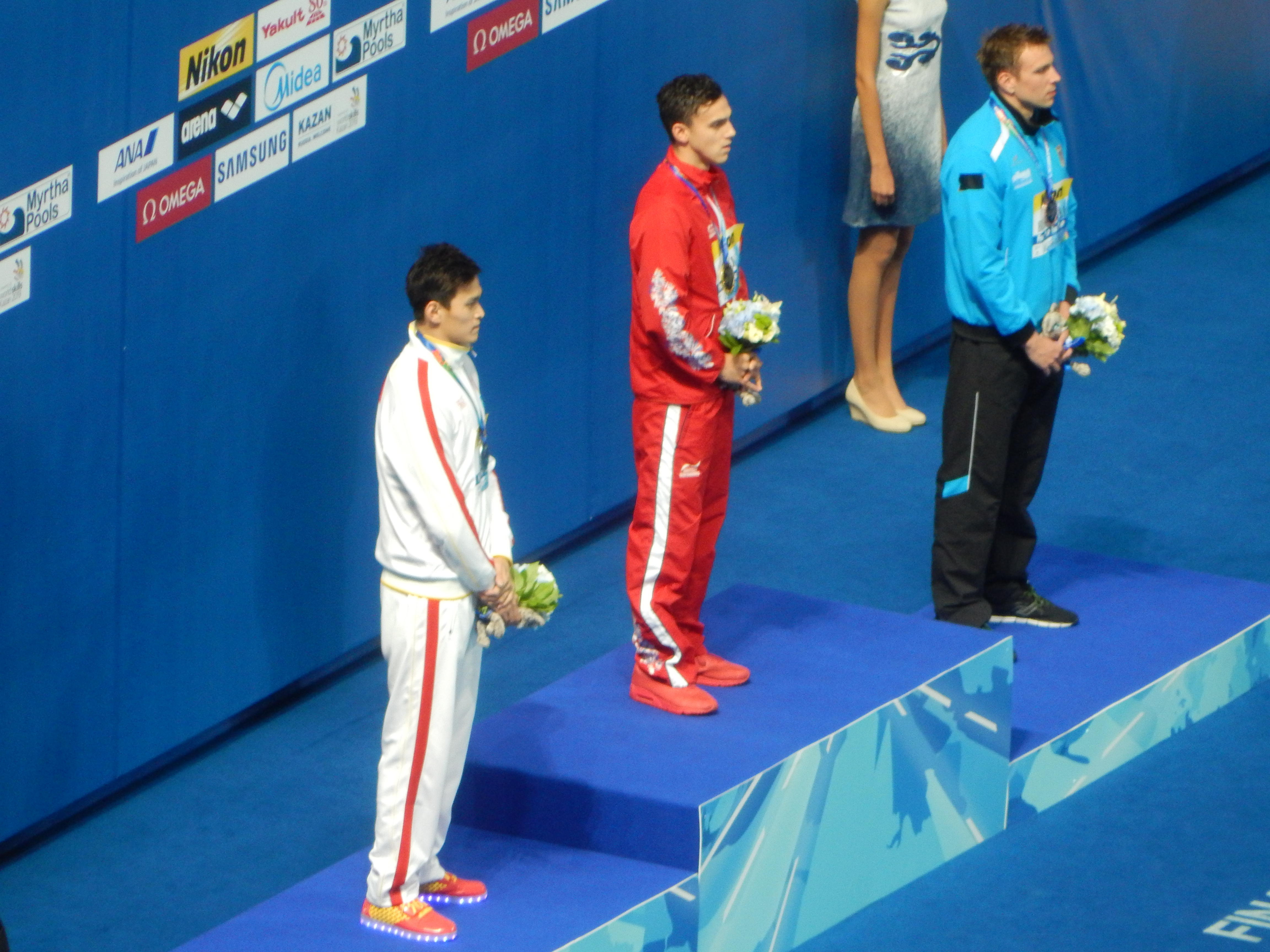 Medallists at the men's 200 metres freestyle in Kazan 2015